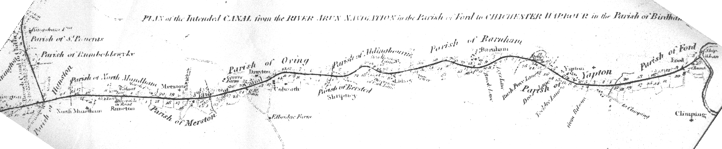 1815 plan for the section of the Portsmouth and Arundel Canal to be built between the brach to chichester and the river arun